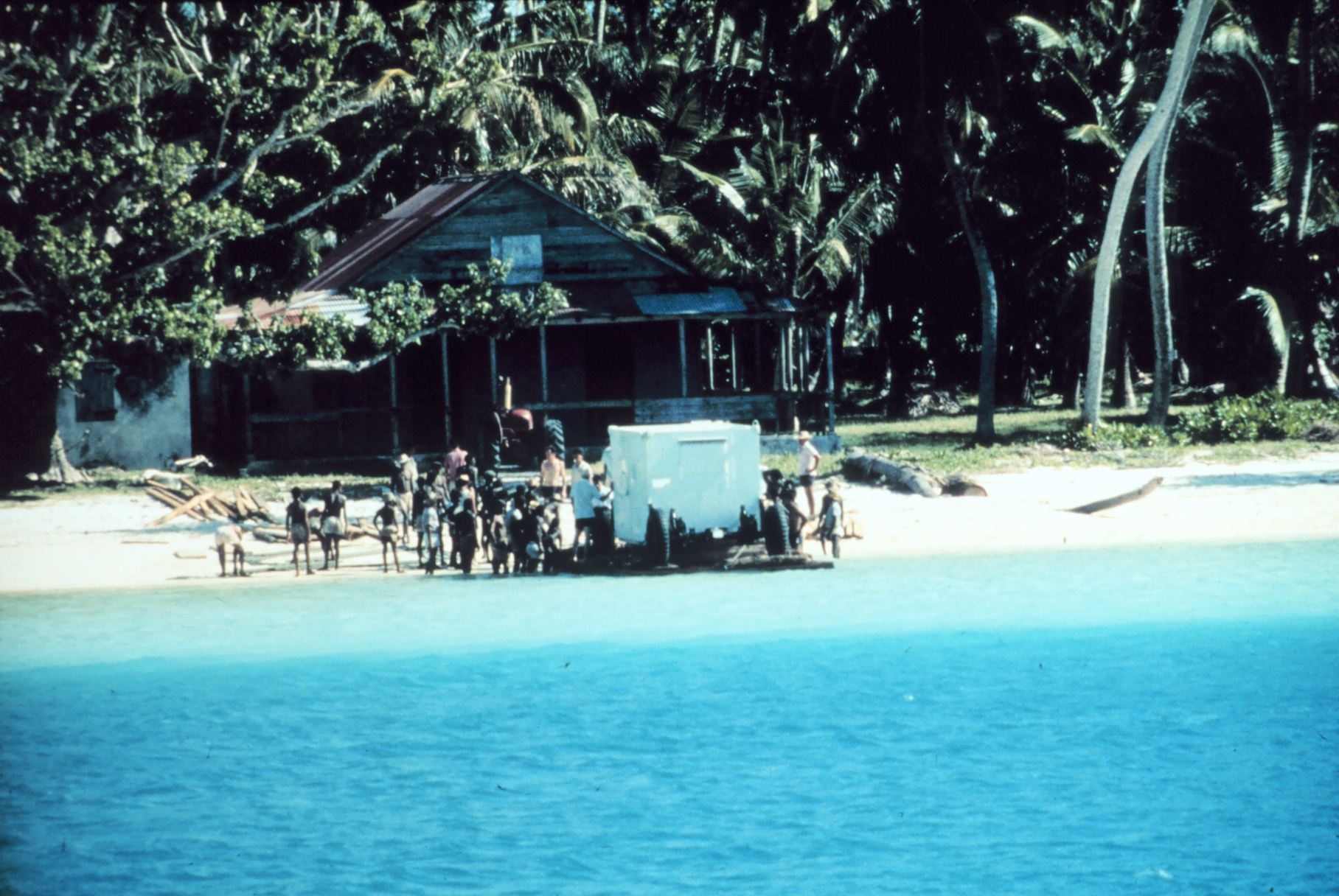 US personnel bringing equipment onto Diego Garcia helped by Ilois, 1971. Location: Chagos, Diego Garcia Island (Image ID: geod0337, Geodesy Collection)